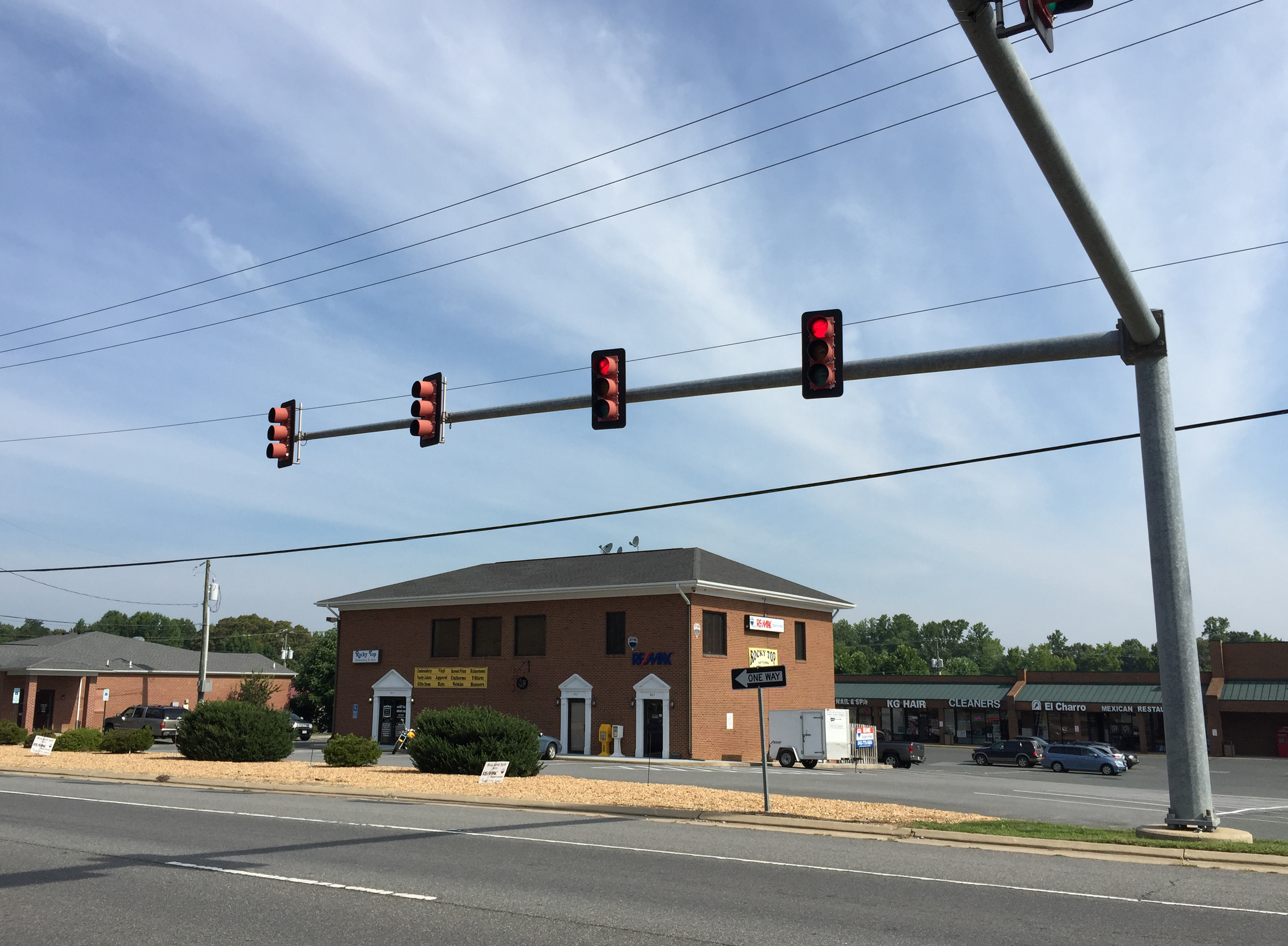 Traffic signal at the King George Fire and Rescue along Virginia State Route 3 (Kings Highway) just west of Virginia State Route 206 (Dahlgren Road) in Arnolds Corner, King George County, Virginia